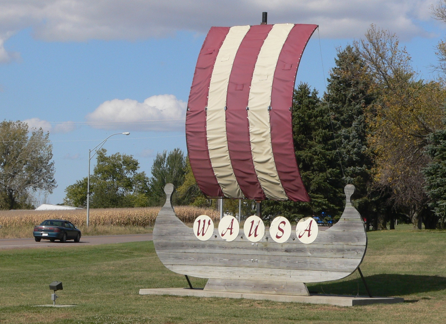 Welcome sign in the form of a Viking longship, located beside Nebraska Highway 121 at the southern edge of Wausa, Nebraska.